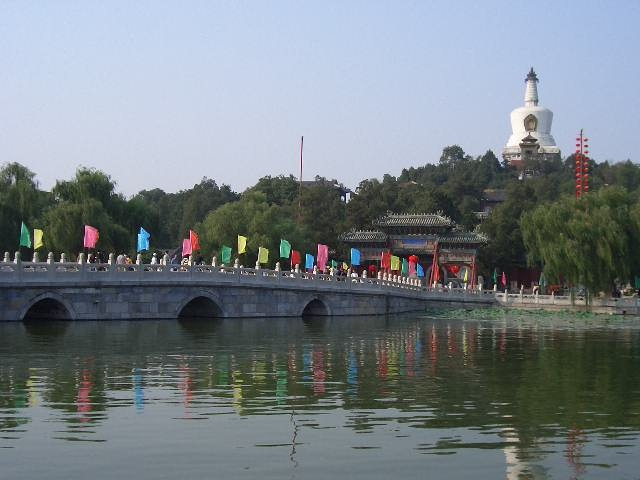 Brightly-coloured flags decorate a bridge within Beihai Park, Beijing on a bright spring day in China.